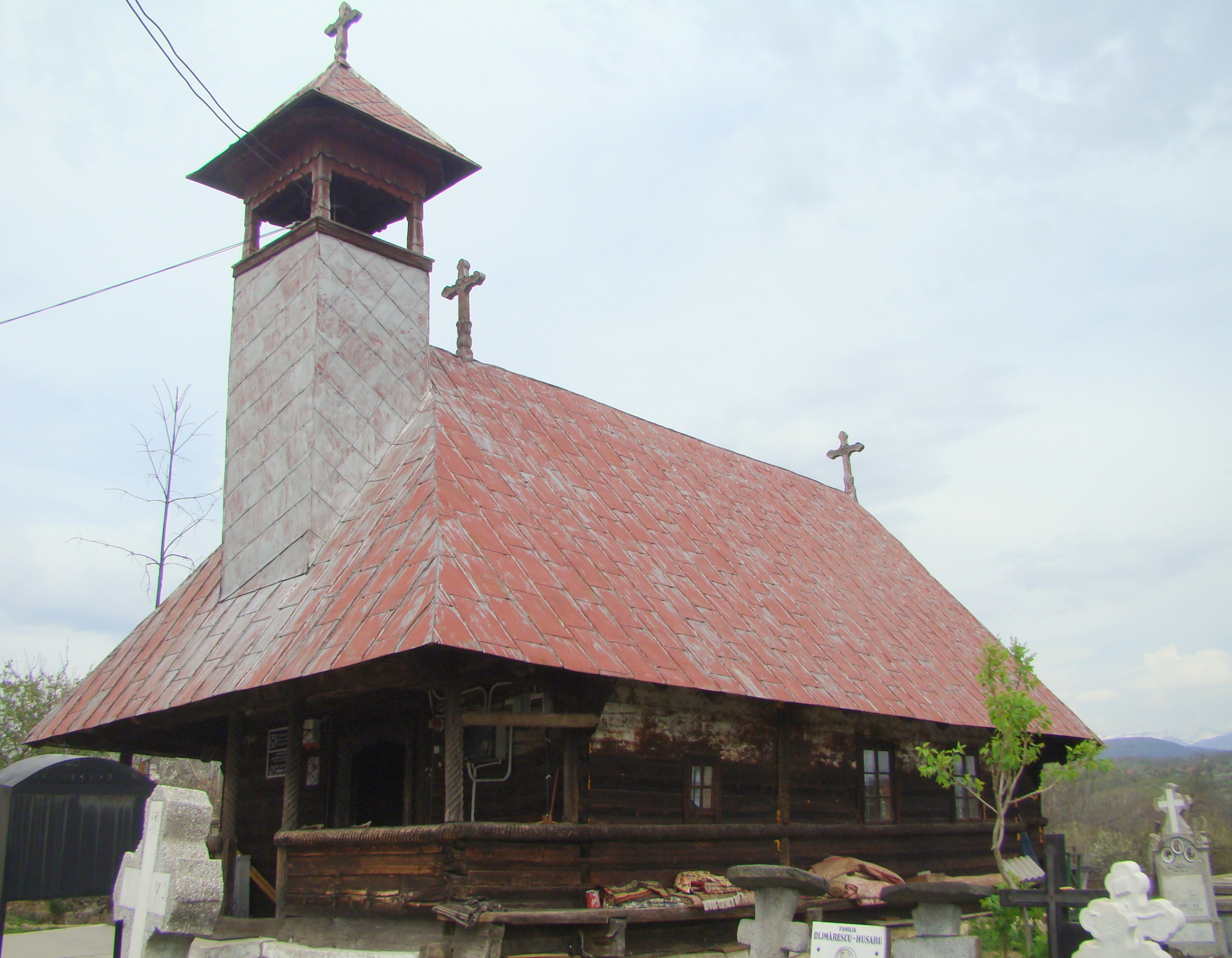 Wooden church in Horezu, Gorj county, Romania